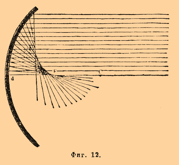 Illustration from Brockhaus and Efron Encyclopedic Dictionary (1890—1907)